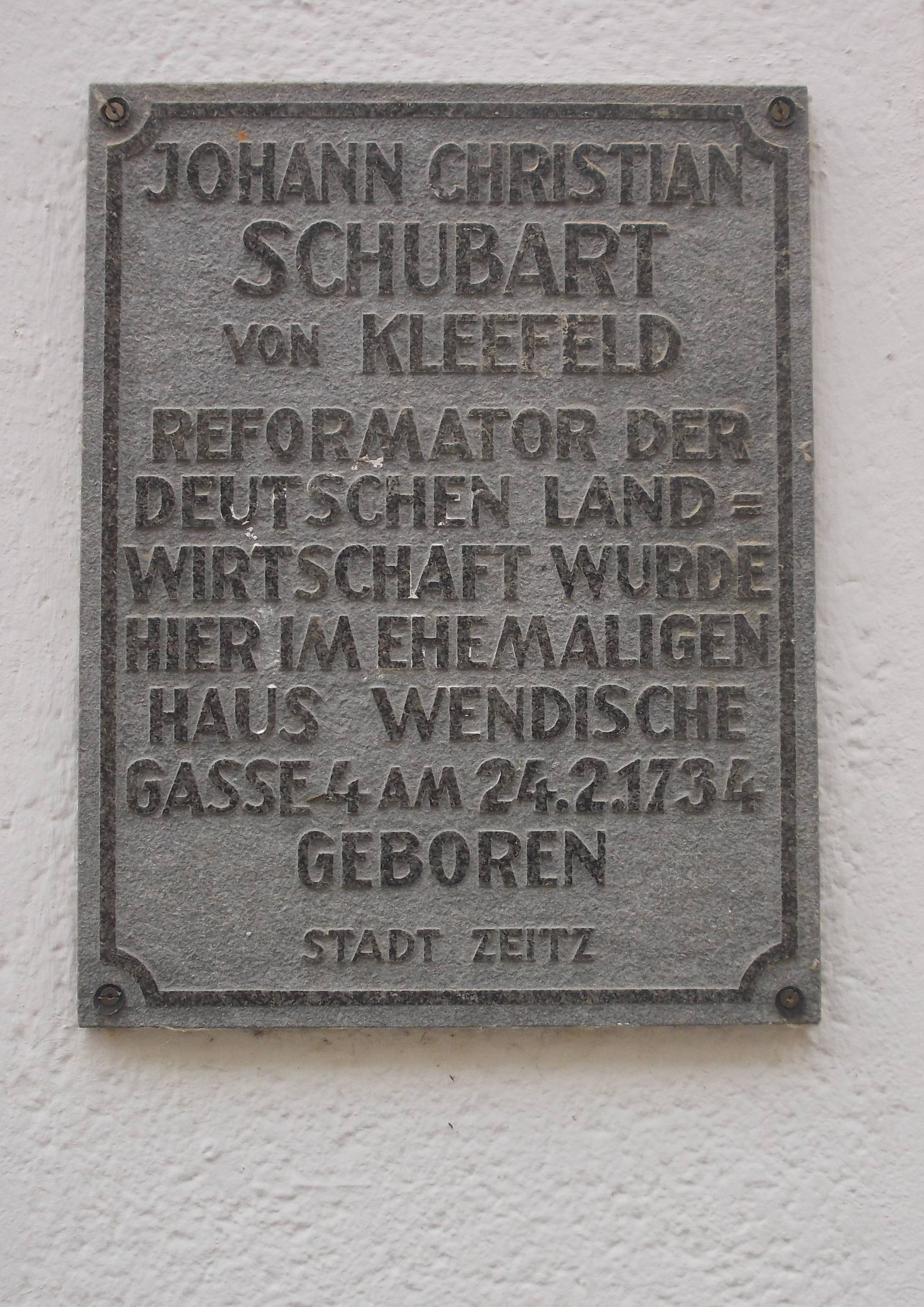 Plaque at the birthplace of the agronomist Johann Christian Schubart in Zeitz (district: Burgenlandkreis, Saxony-Anhalt)